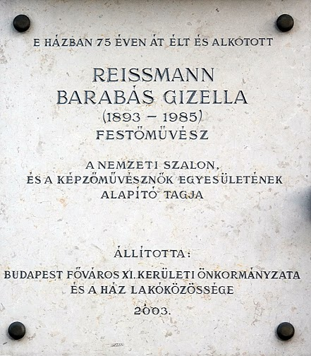 Gizella Reissmann Barabás commemorative plaque in Budapest District XI, Bartók Béla Street No 78.